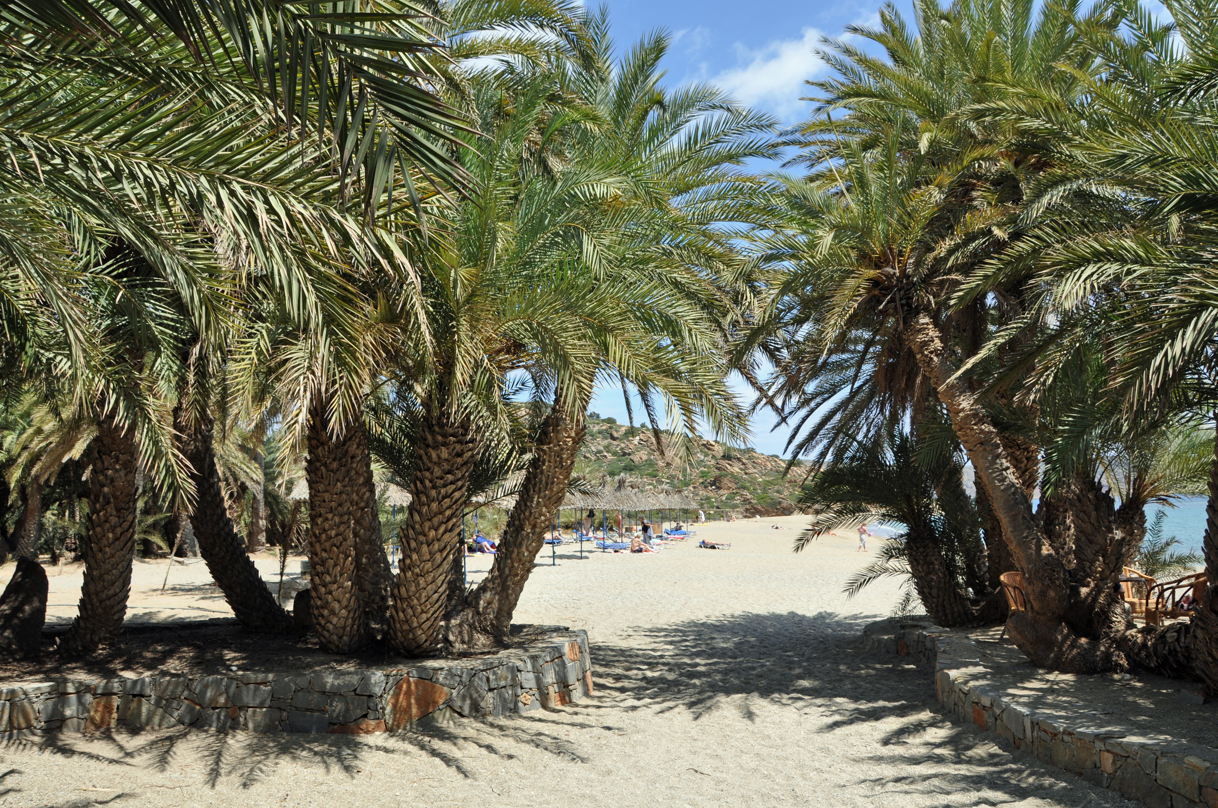 The palm beach of Vai (Crete, Greece)